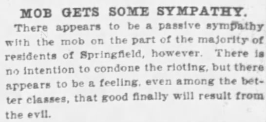 Chicago Tribune. Aug. 17, 1908.